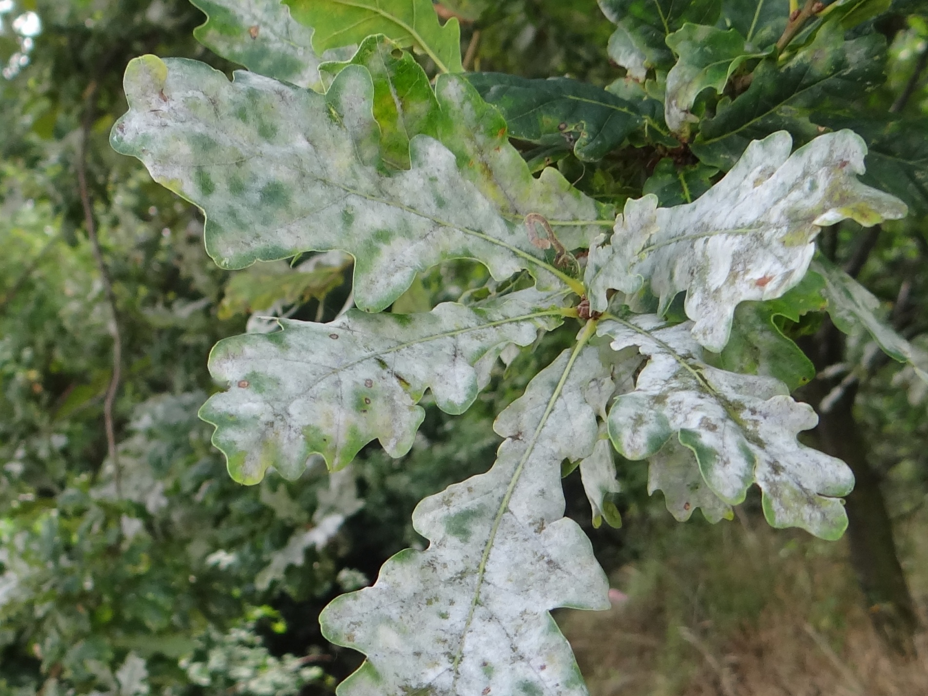 Erysiphe alphitoides on Quercus robur